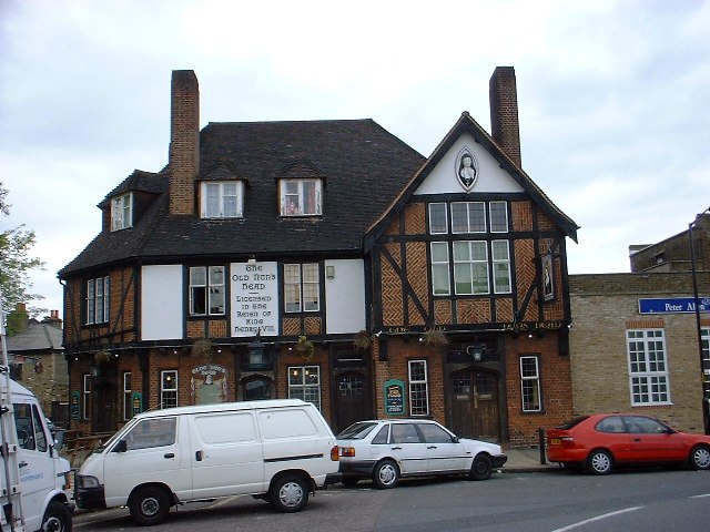 The Old Nuns Head. The Old Nuns Head, Nunhead Green, London SE